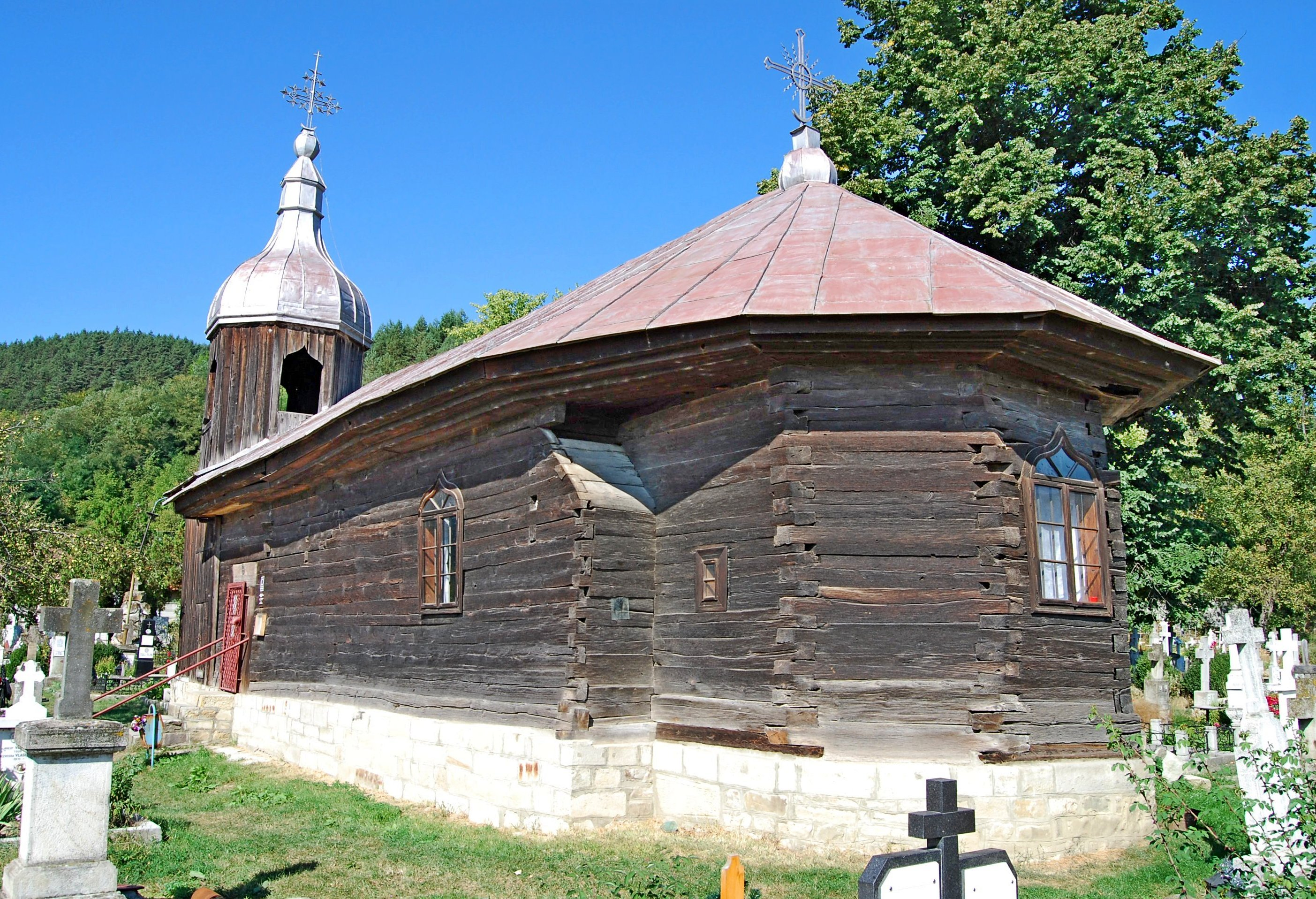 Wooden Church Saint Parascheva in Târgu Ocna, Bacău county, Romania. Photo: 14 September 2011Română: Biserica de lemn „Sfânta Paraschiva” din Târgu Ocna. Foto: 14 septembrie 2011